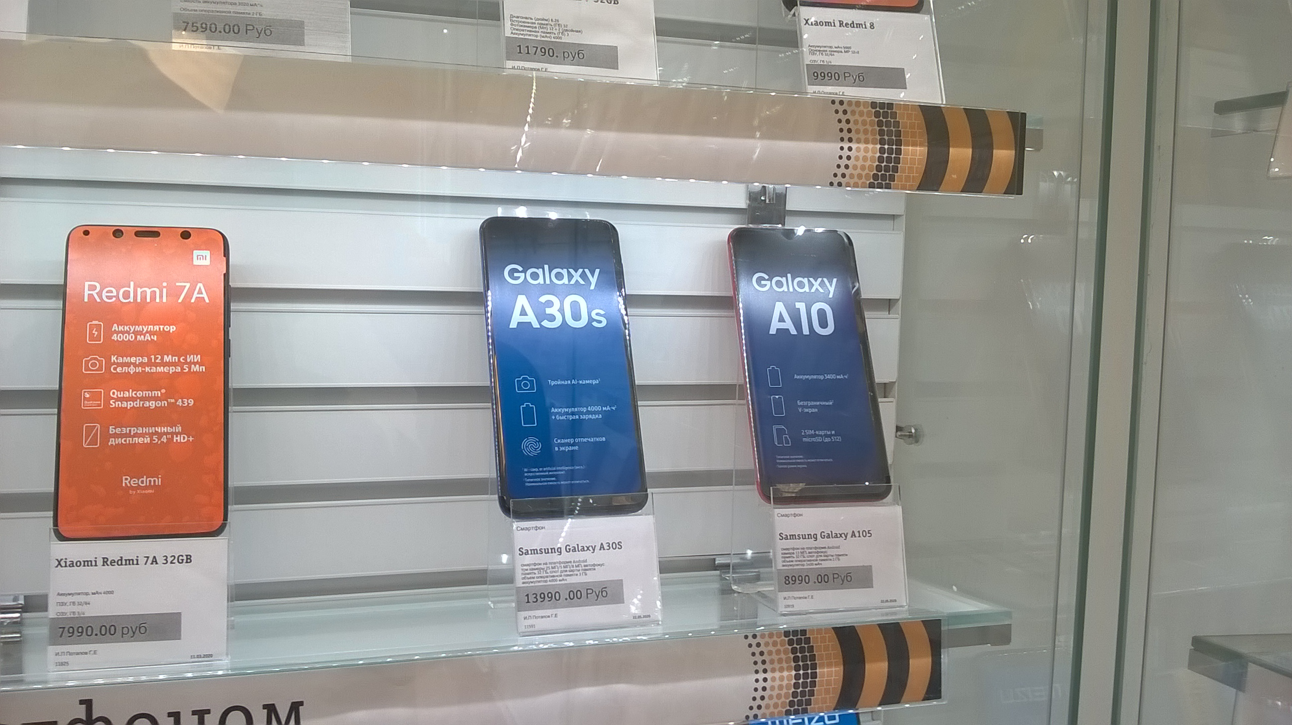 Russian mobile phones shop photographed on May 27, 2020